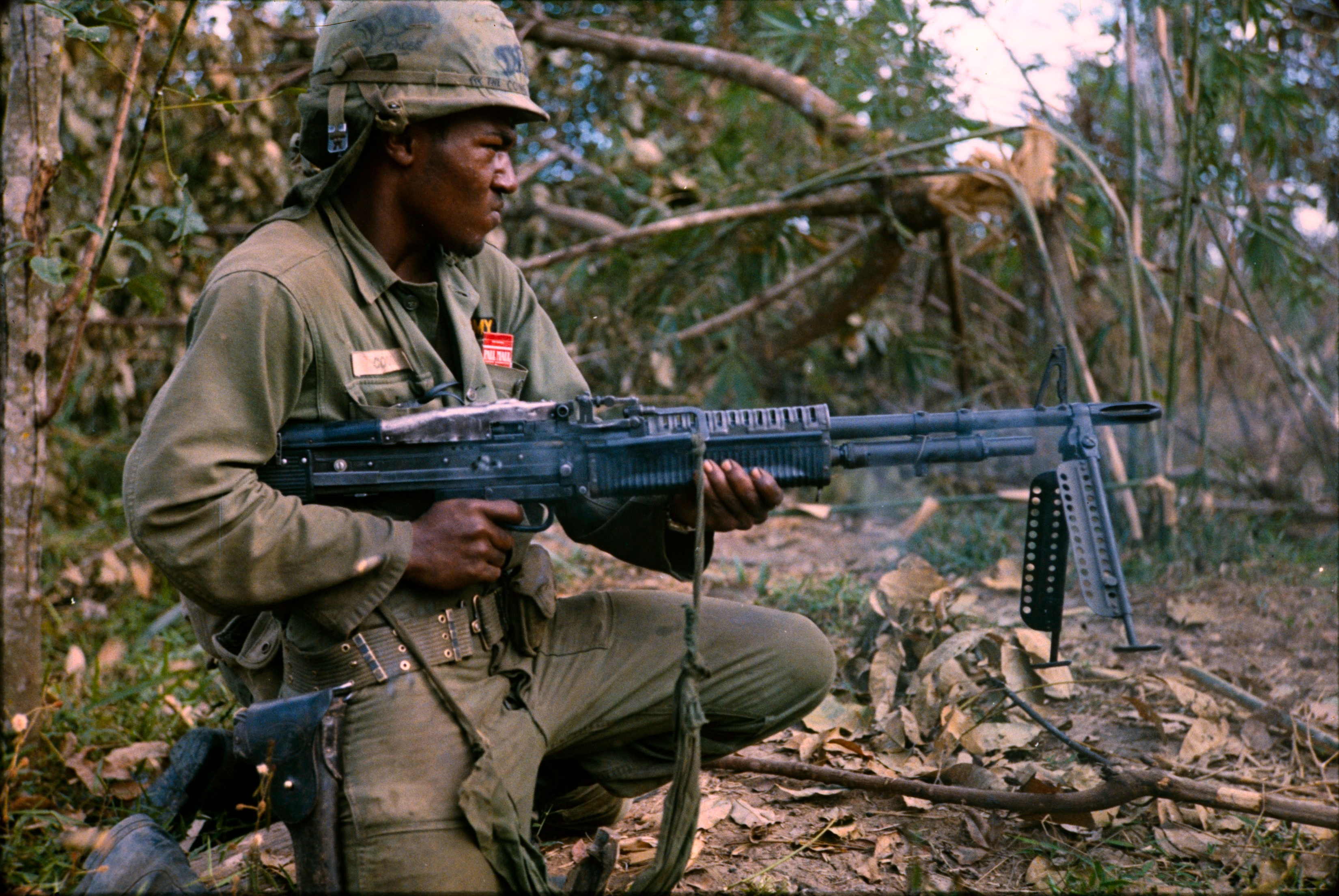 On 8 January 1967, PFC Milton L. Cook (Baltimore, MD) fires his M60 machine gun spraying a tree line. The platoon received sporadic sniper fire from the tree line earlier. PFC Cook was one of many Soldiers from Company C, 1st Battalion, 5th Mechanized Infantry, 25th Infantry Division on a search and destroy mission. The mission was a part of Operation Cedar Falls conducted in and around the Filhol Plantation near Cu Chi, Republic of Vietnam.